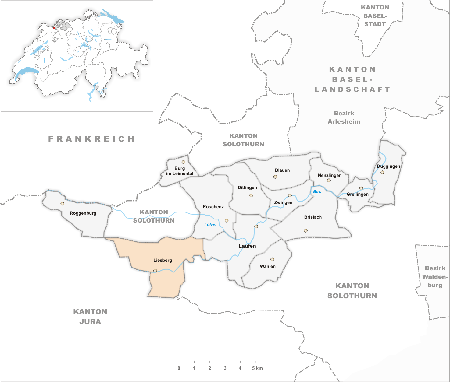 Municipality Liesberg